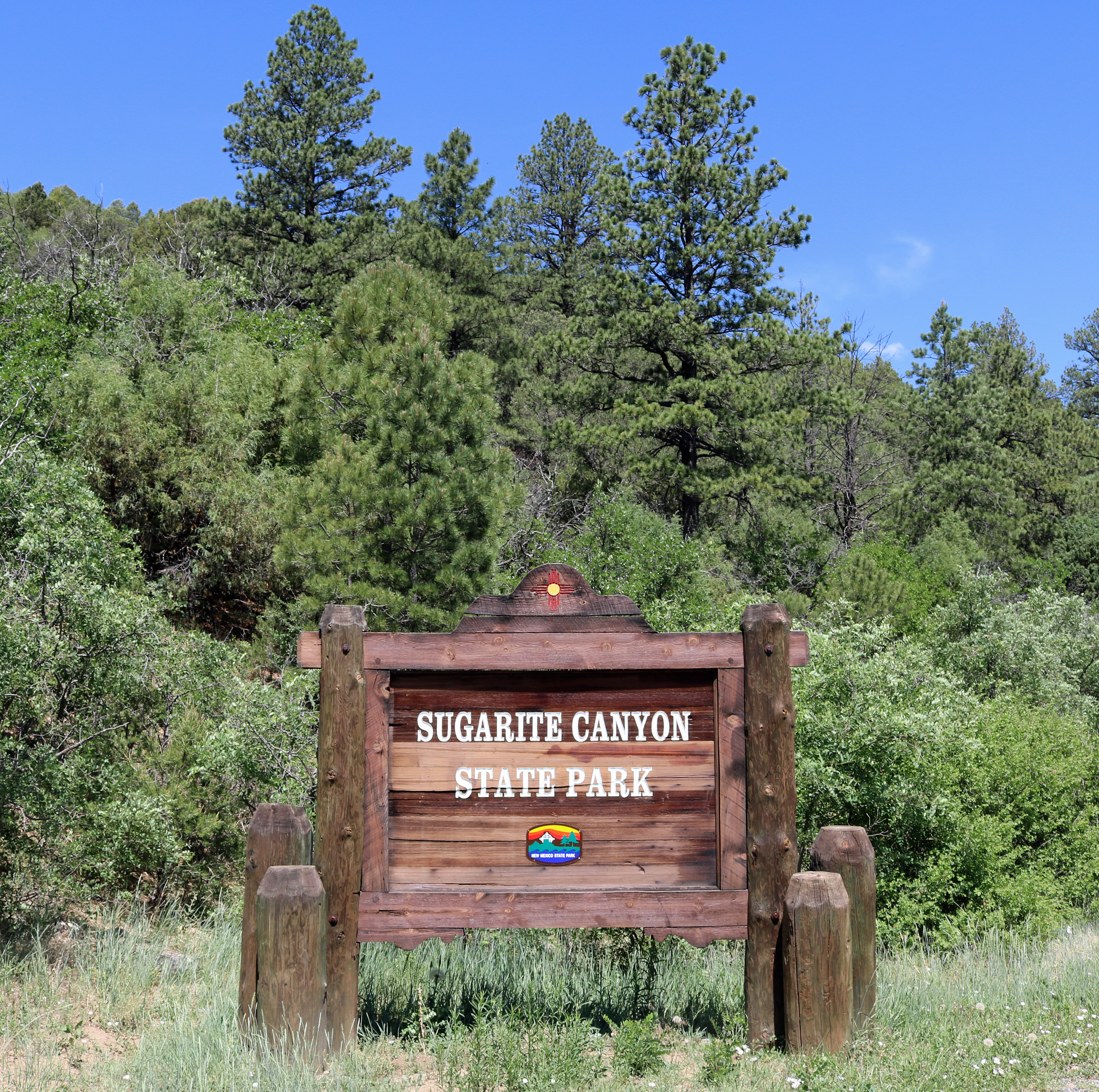 A sign marking the entrance to Sugarite Canyon State Park in Colfax County, New Mexico.